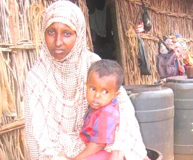 Somali woman with her child.